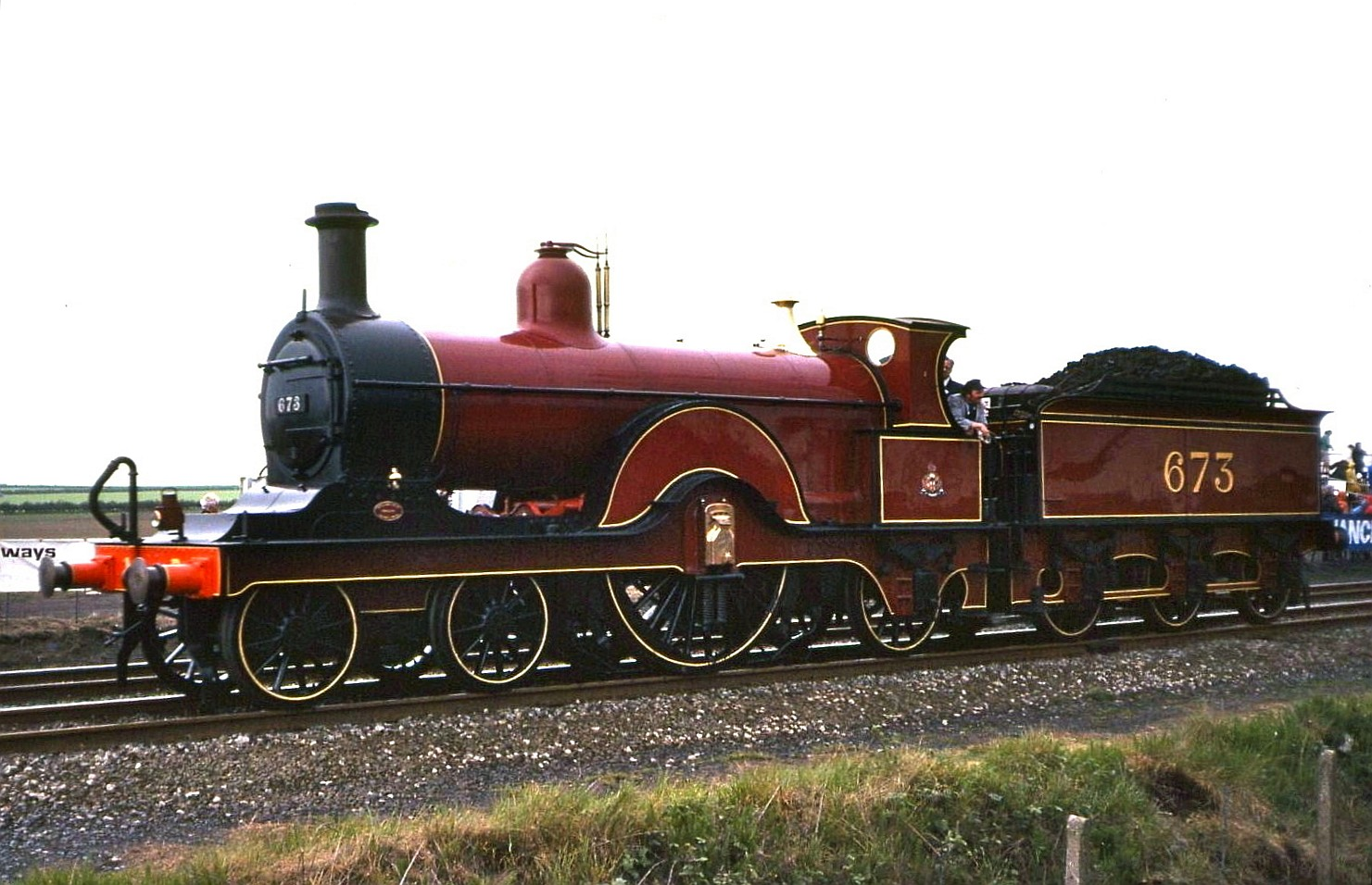 Midland Railway 115 Class 4-2-2 no 673, at the Rocket 150 celebration in Rainhill in May 1980